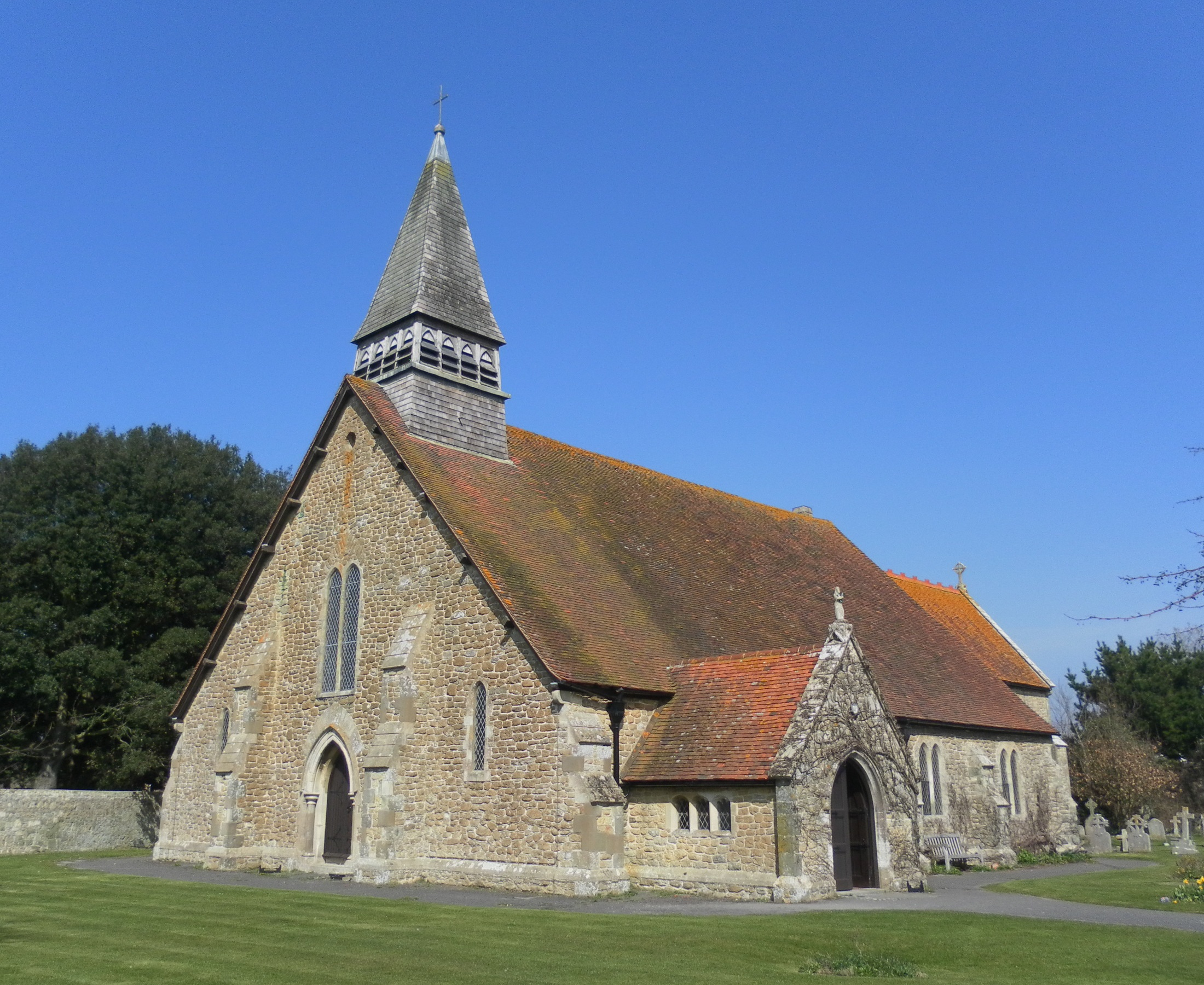 St Peter's parish church, Selsey, West Sussex, seen from the south